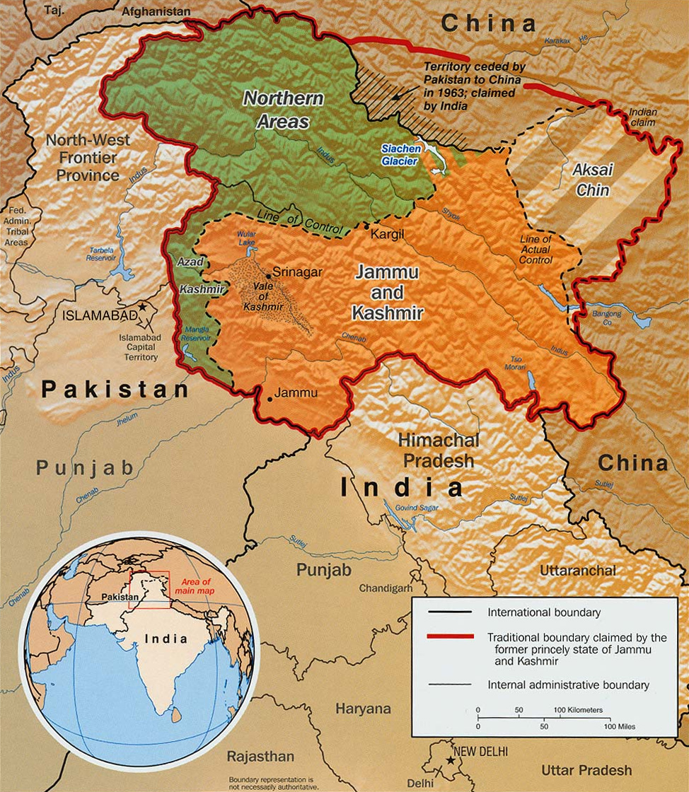 Original text from CIA World Factbook: "The Disputed Territory : Shown in green is Kashmiri region under Pakistani control. The dark-brown region represents Indian-controlled Jammu and Kashmir while the Aksai Chin is under Chinese occupation." Library of Congress, Geography and Map Division, Washington, D.C. 20540-4650 USA. Info from its archive page [1] for this map: Kashmir region. United States. Central Intelligence Agency. CREATED/PUBLISHED [Washington : Central Intelligence Agency, 2003] NOTES "763537AI (R00744) 5-03." Relief shown by shading. Shows boundaries and disputed areas. Includes location map. Scale [ca. 1:510,000]. SUBJECTS Jammu and Kashmir (India)--Maps Jammu and Kashmir (India)--Boundaries--Maps. India--Jammu and Kashmir. MEDIUM 1 map : col. ; 20 x 17 cm. CALL NUMBER G7653.J3 2003 .U51 REPOSITORY Library of Congress Geography and Map Division Washington, D.C. 20540-4650 USA DIGITAL ID g7653j ct001059